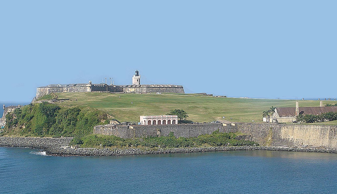 Fort San Felipe del Morro ("El Morro") in San Juan, Puerto Rico